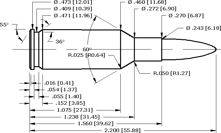 6mm BR Remington Schamatic